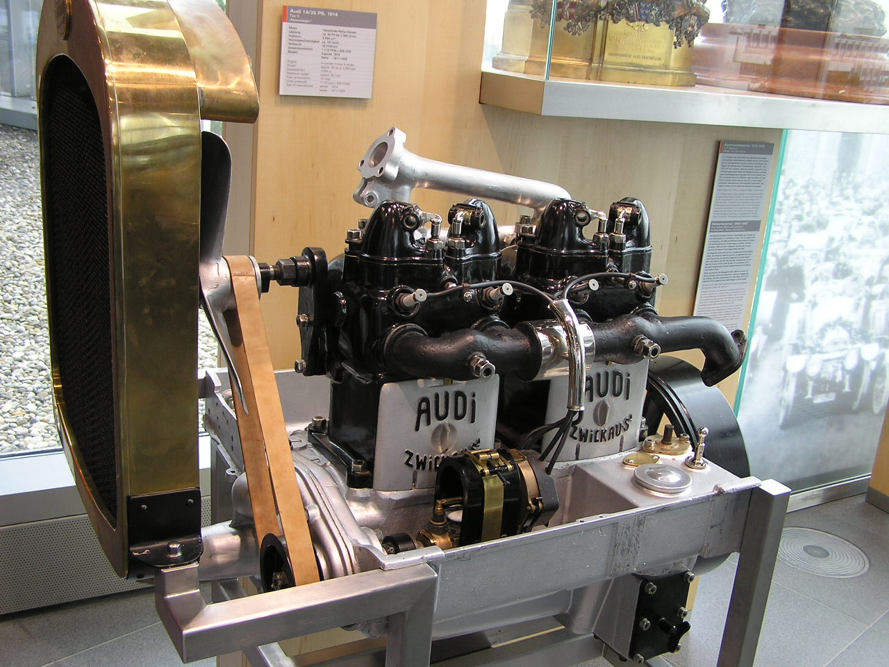 Audi Type C, "Alpensieger" 14/35 PS, 1914